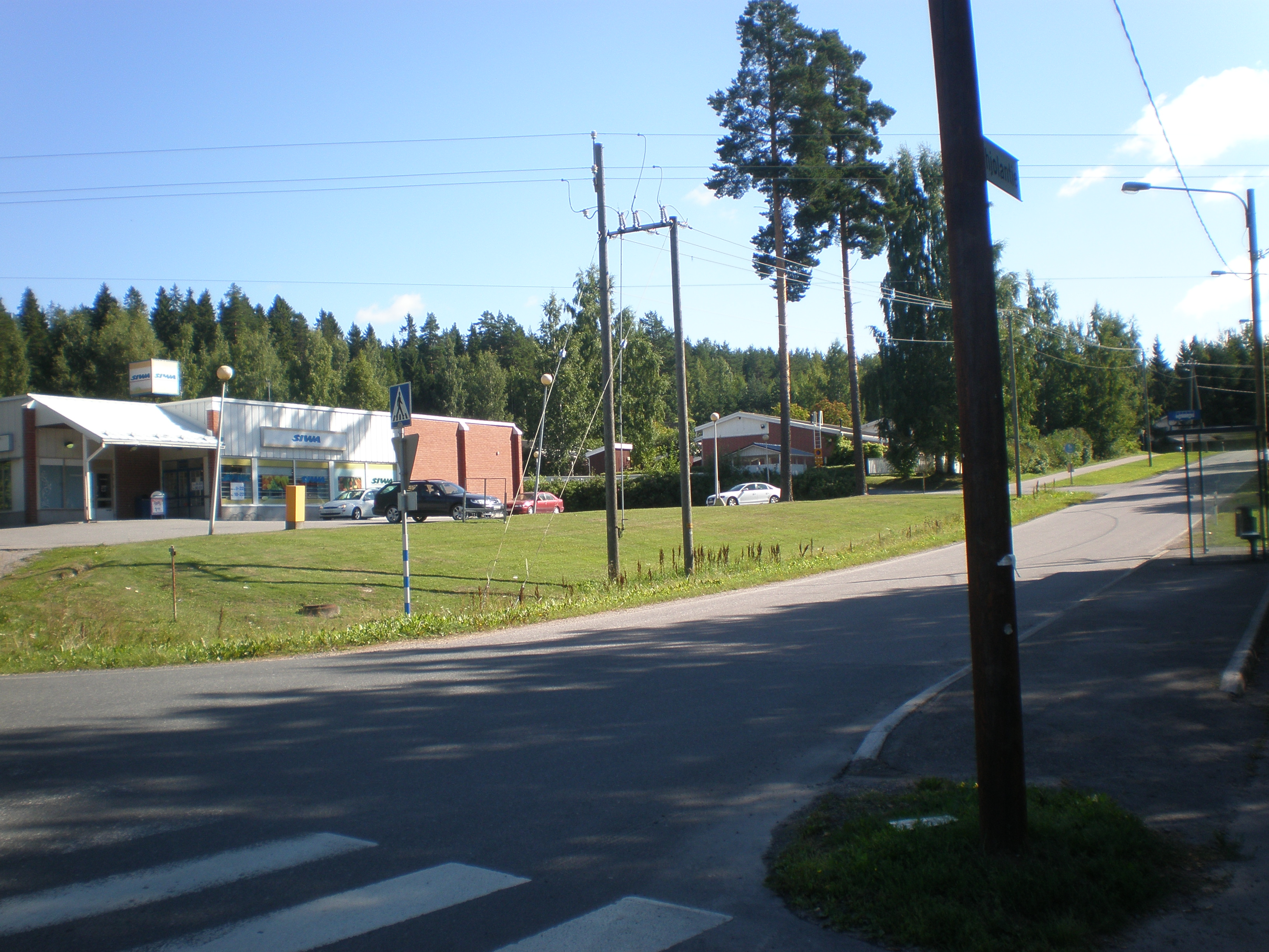 Vuorentausta from the Pohjolantie, on the left Siwa grocery store (nowadays K-Market)